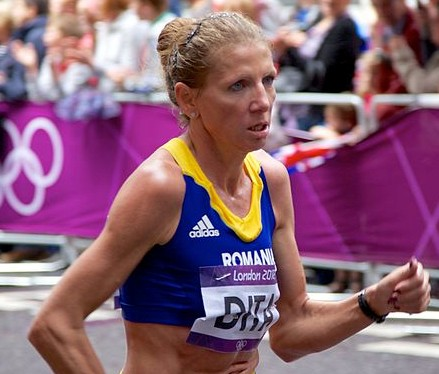 Women's Marathon